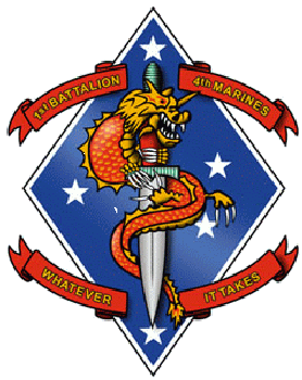 1st Battalion, 4th Marine Regiment Insignia.